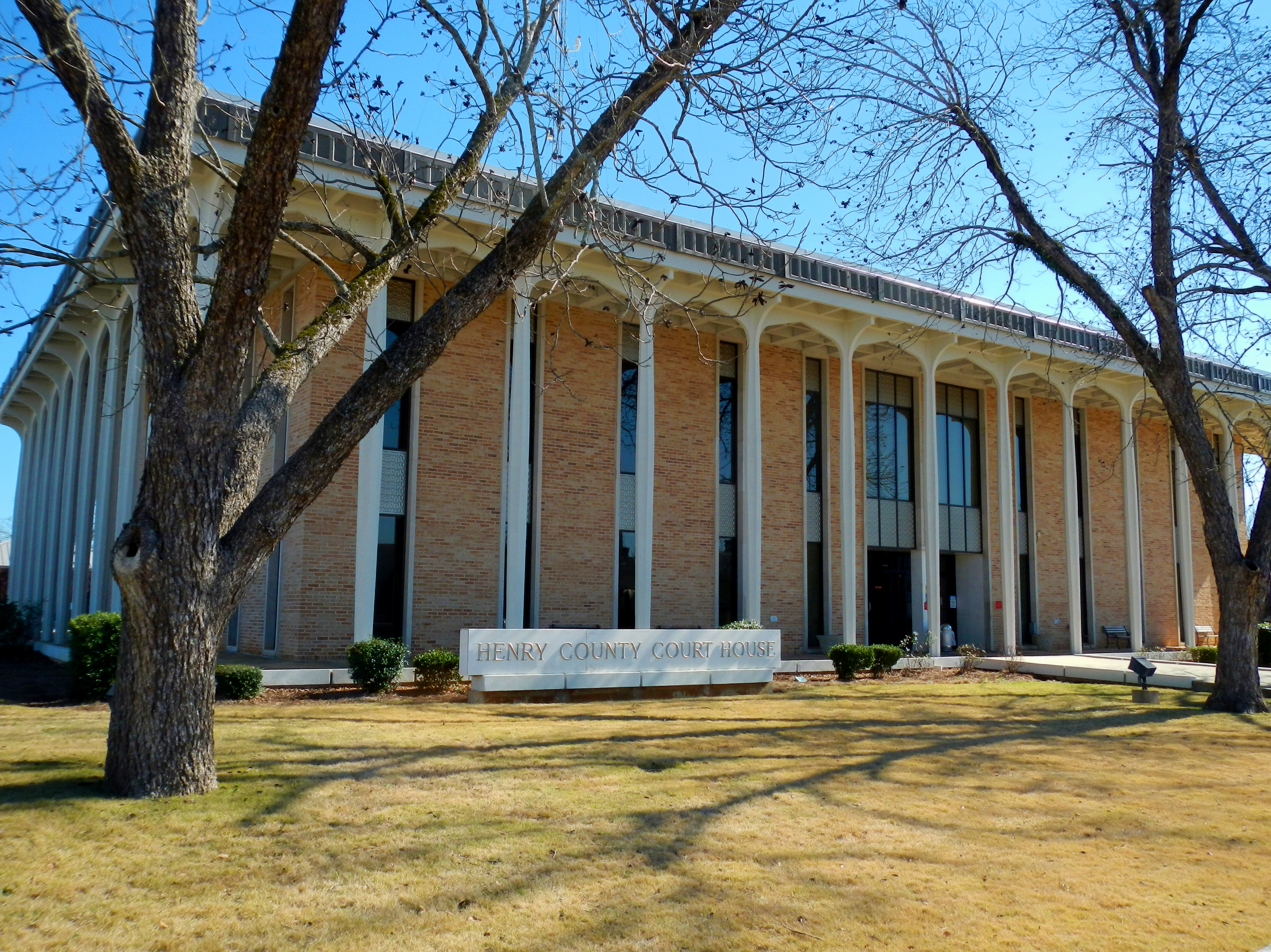 This is a photograph of the courthouse in Henry County, Alabama.